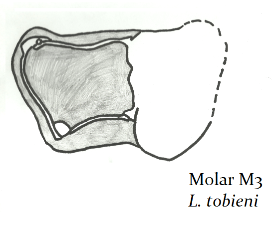 Leptictidium tobieni M3 tooth